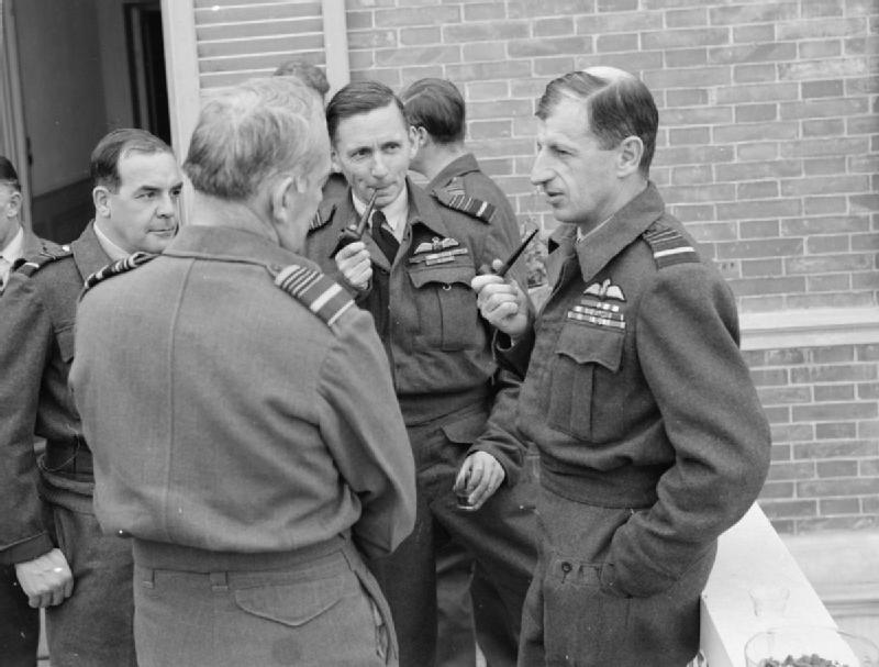 Air Chiefs in conference at Vasto, during a visit to Italy by the Chief of the Air Staff. Left to right: Air Vice-Marshal H Broadhurst, Air Officer Commanding the Desert Air Force Air Marshal Sir Arthur "Mary" Coningham, Air Officer Commanding, North-West African Tactical Air Force (back to the camera) Air Chief Marshal Sir Arthur Tedder, Air Officer Commanding-in-Chief, Mediterranean Air Command Air Chief Marshal Sir Charles Portal, CAS